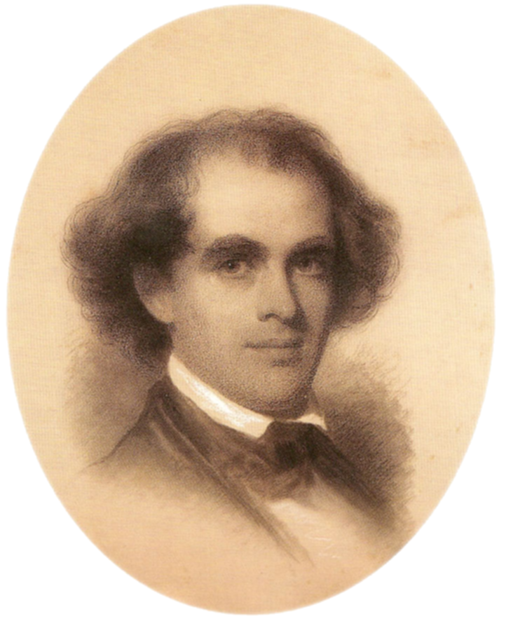 Portrait of Nathaniel Hawthorne by artist Eastman Johnson in 1846.